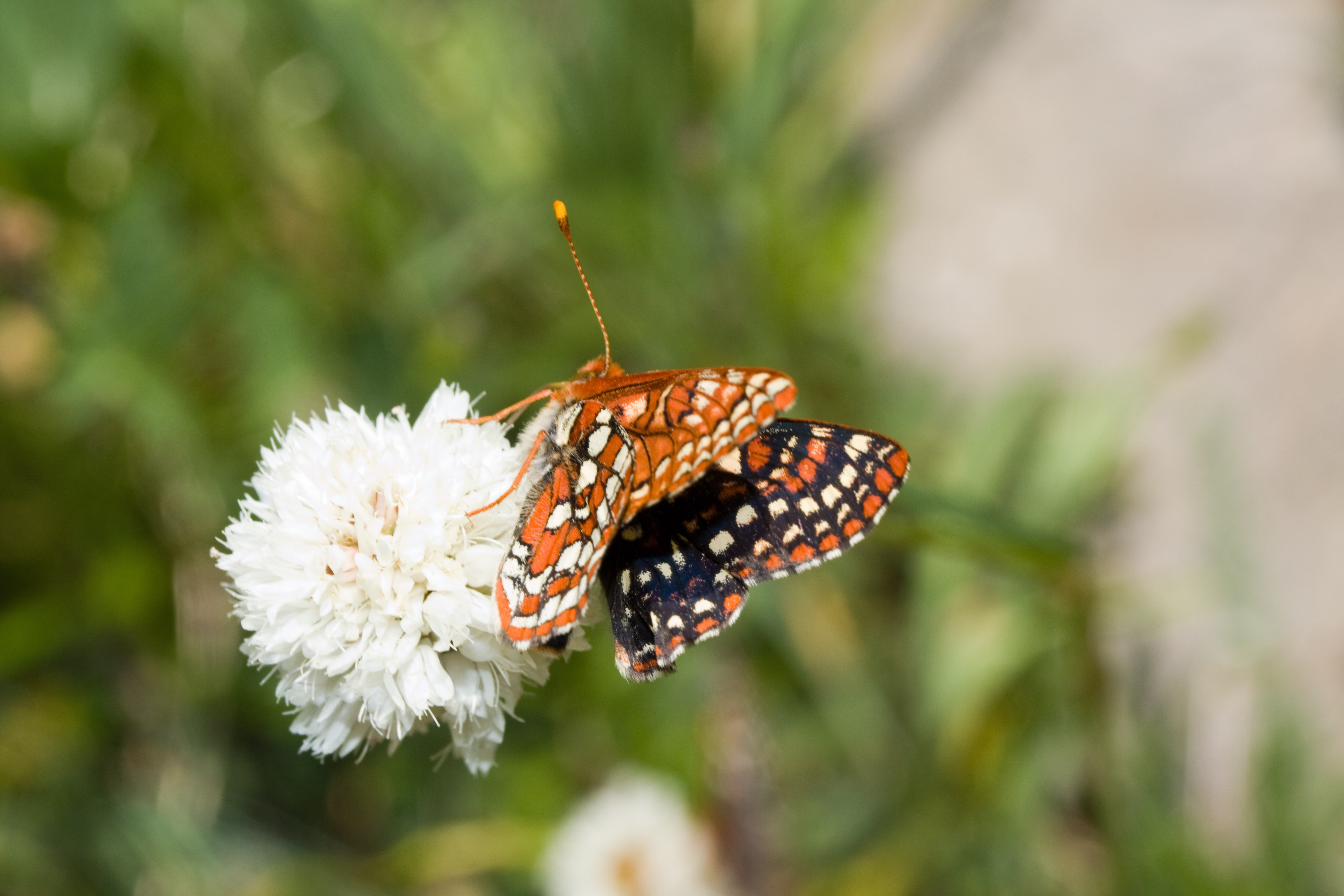 Edith's Checkerspot